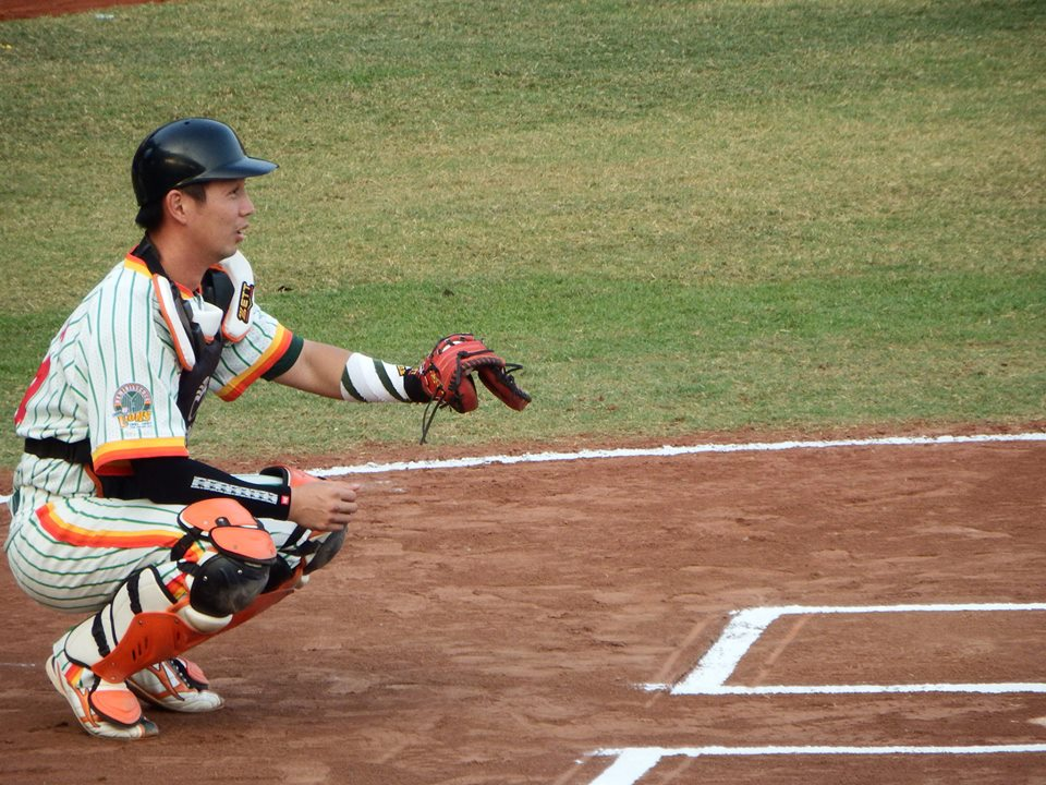 Kao Chih-kang at a baseball game of Tainan of Taiwan in October 5, 2013.